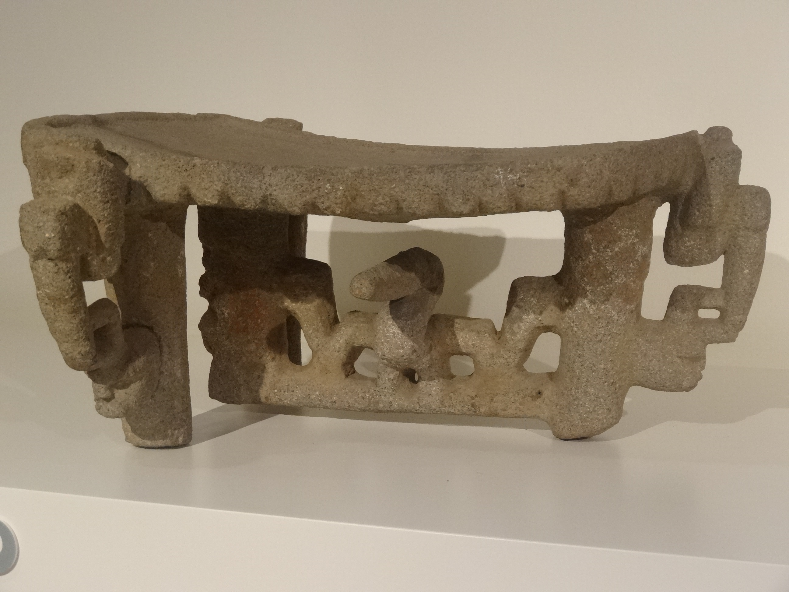 Museu de Cultures del Món, Barcelona.